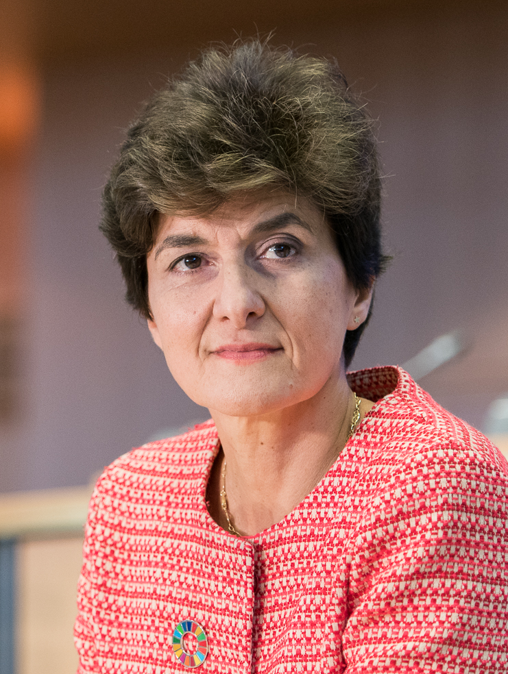 Before the European Parliament can vote the new European Commission led by Ursula von der Leyen into office, parliamentary committees will assess the suitability of commissioners-designate. On 23-26 May, more than 200,000,000 people in 28 EU countries went to the polls to elect members of the European Parliament, giving them a strong democratic mandate, including voting into office the new European Commission and examining the competencies and abilities of its commissioners-designate. Elected members of the European Parliament will also listen to their ideas and will assess their willingness to take concrete actions on the issues that Europeans care about. Each candidate commissioner is invited for a live-streamed, three-hour hearing in front of the committee or committees responsible for their proposed portfolio. The hearings will take place between Monday 30 September and Tuesday 8 October. This photo is free to use under Creative Commons license CC-BY-4.0 and must be credited: "CC-BY-4.0: © European Union 2019 – Source: EP". ( No model release form if applicable. For bigger HR files please contact: webcom-flickr(AT)